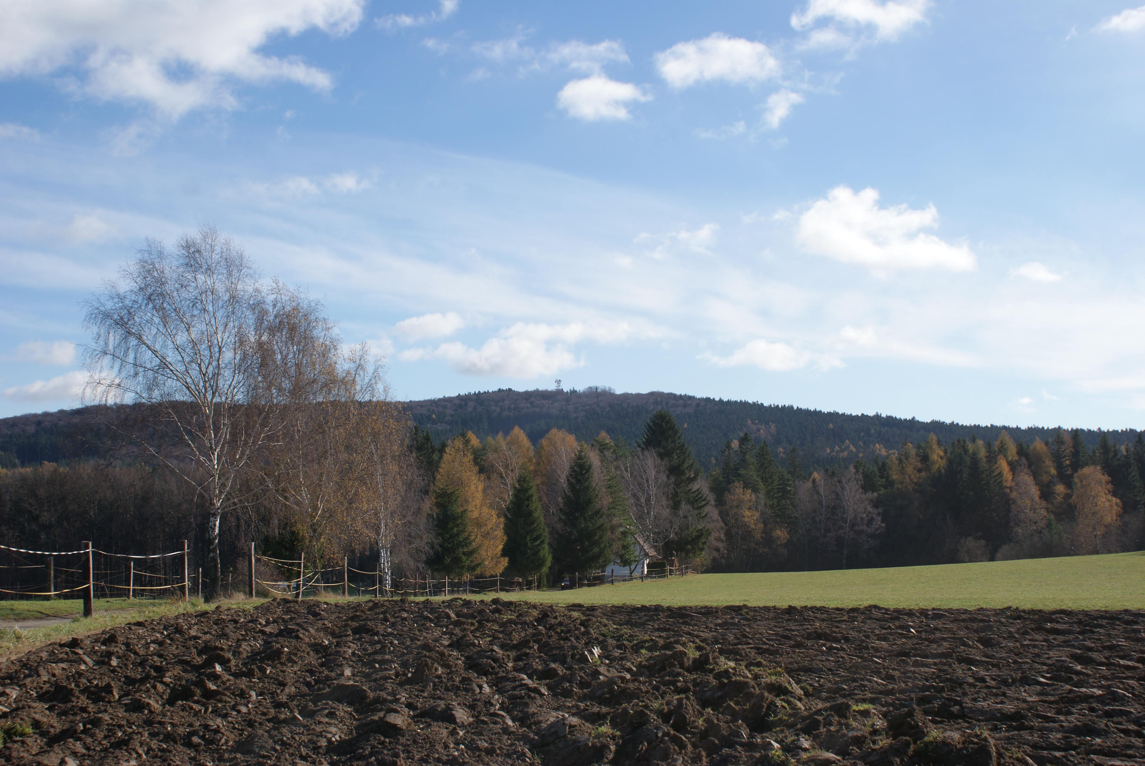 celkovy pohled na Kremesnik